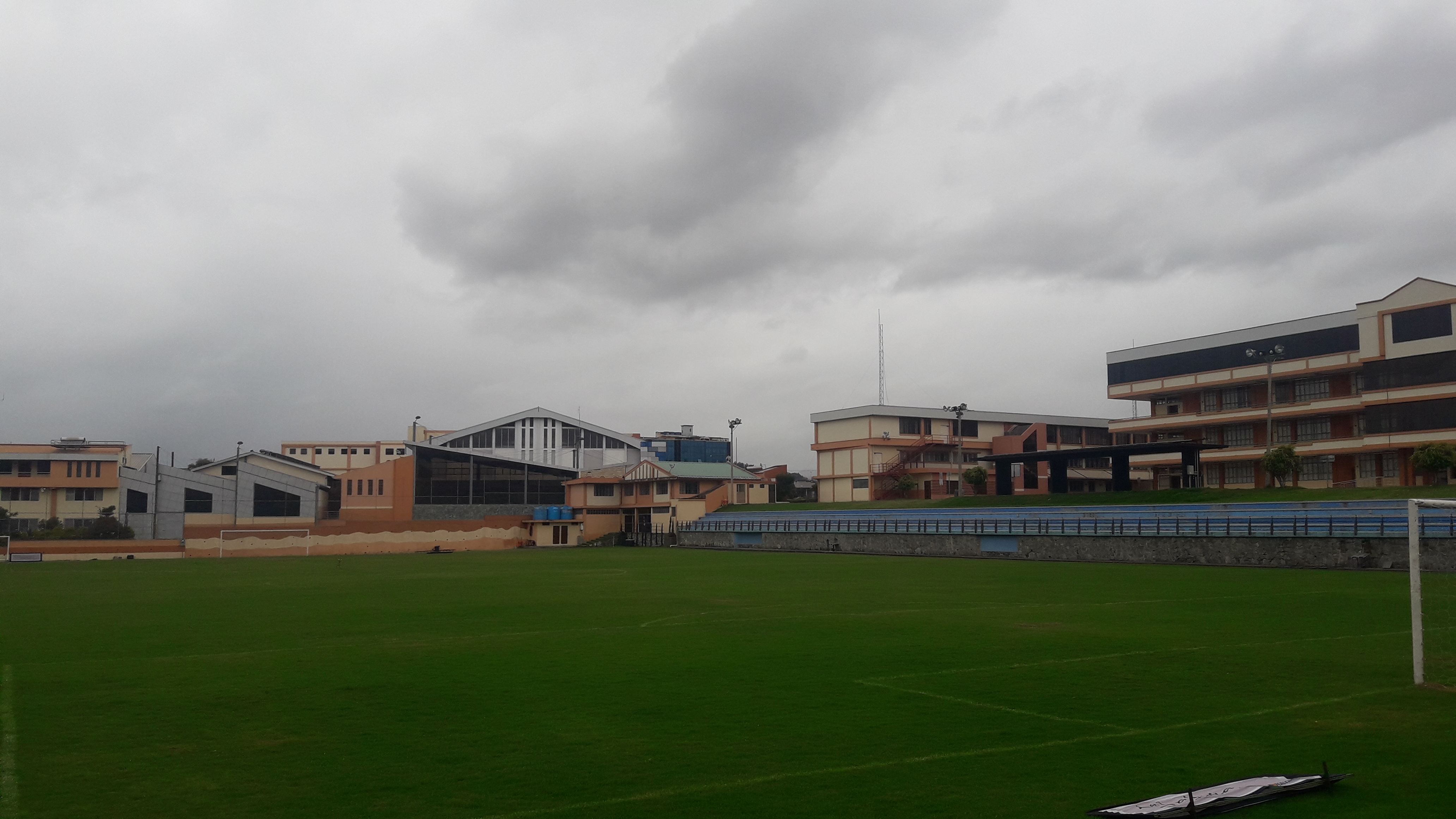 Cancha de la Universidad Politécnica Salesiana